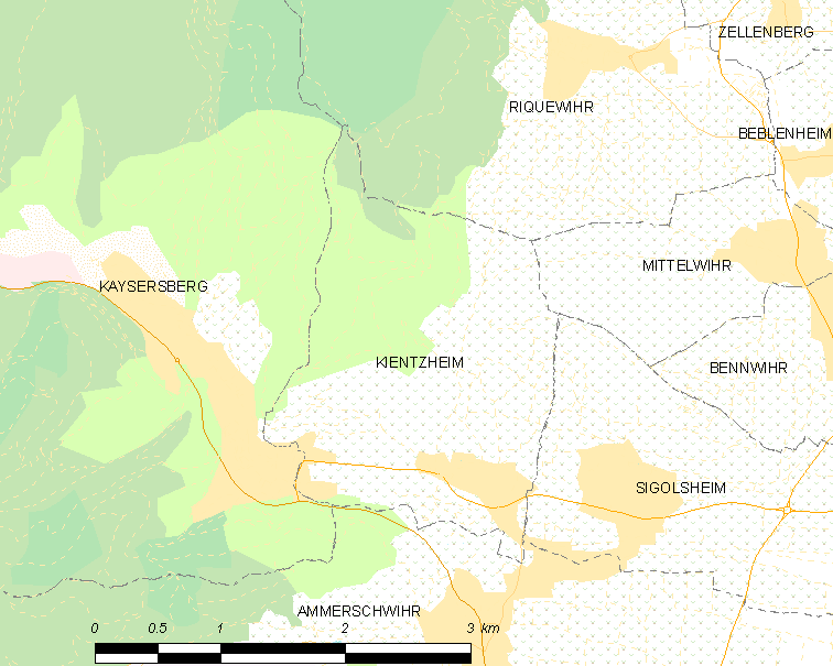 Map of French municipality